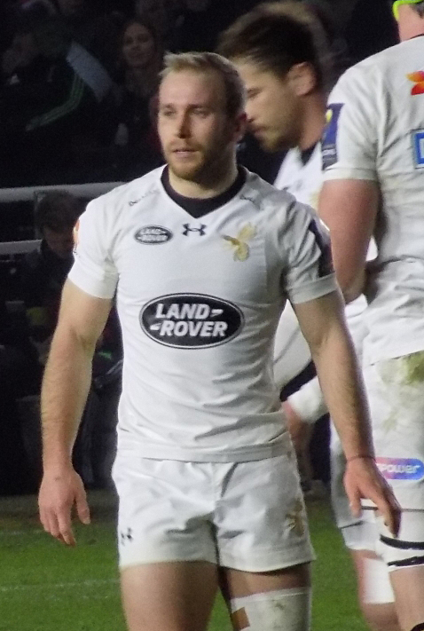 Dan Robson, Wasp's scrum-half